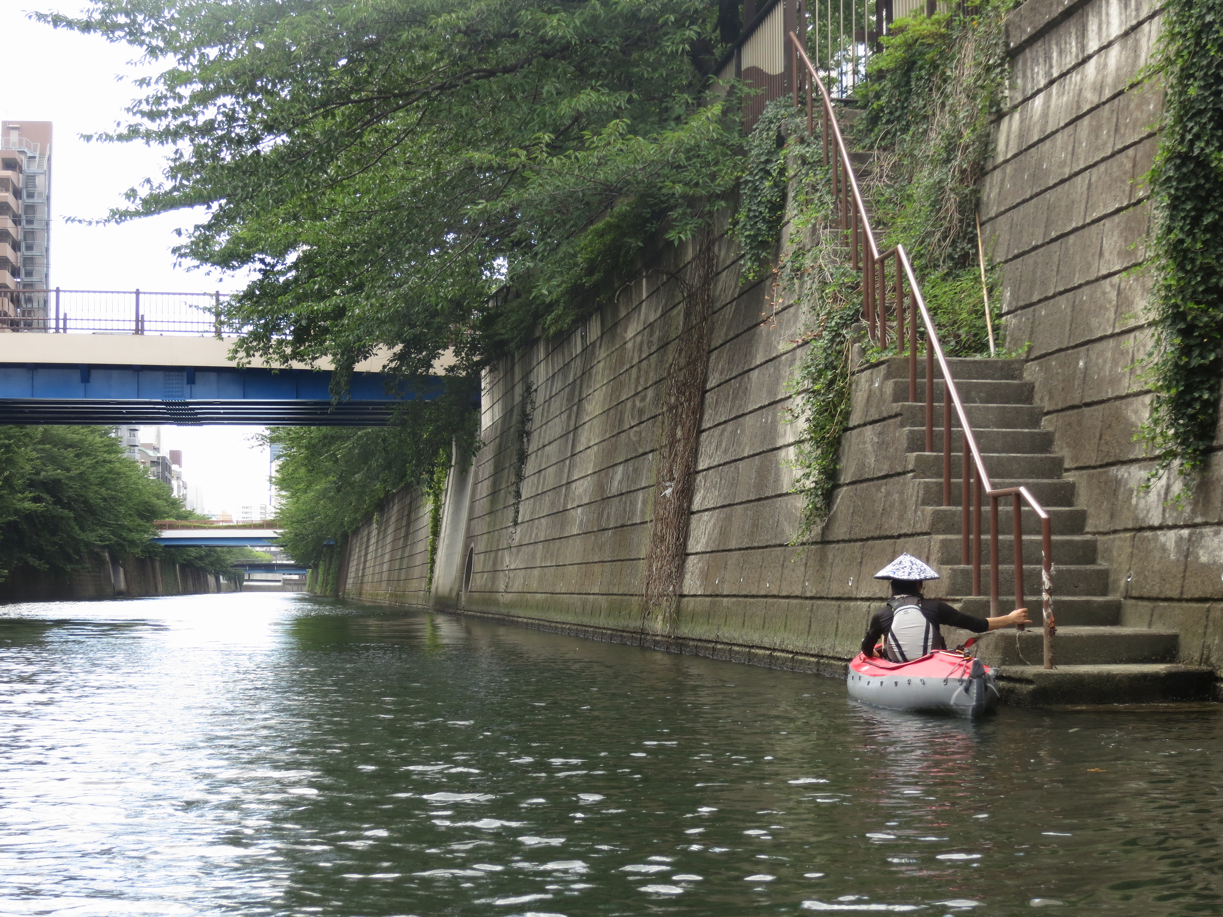 A view upstream of the Meguro River in Meguro 1-chōme, Meguro-ku, Tokyo, looking northwest. See the map. Canon PowerShot S100